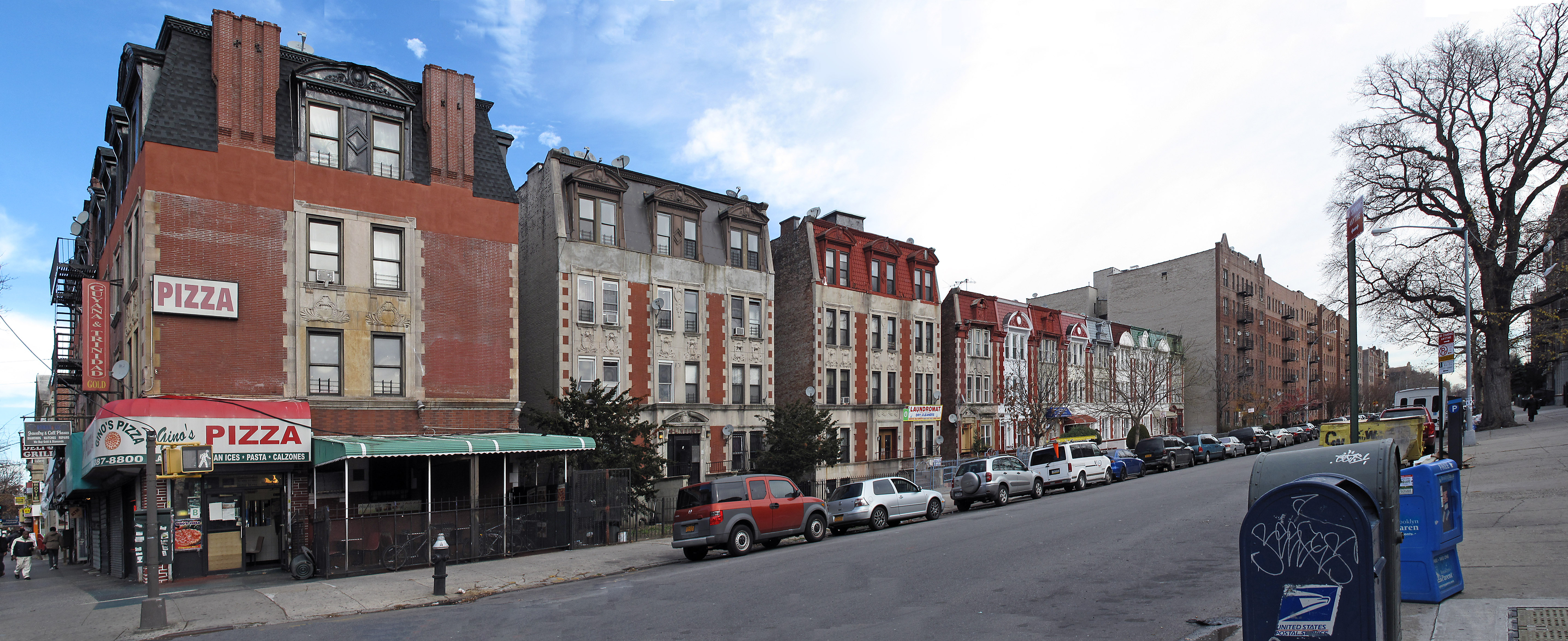 Linden Blvd. at Flatbush Avenue, Brooklyn, 2012.